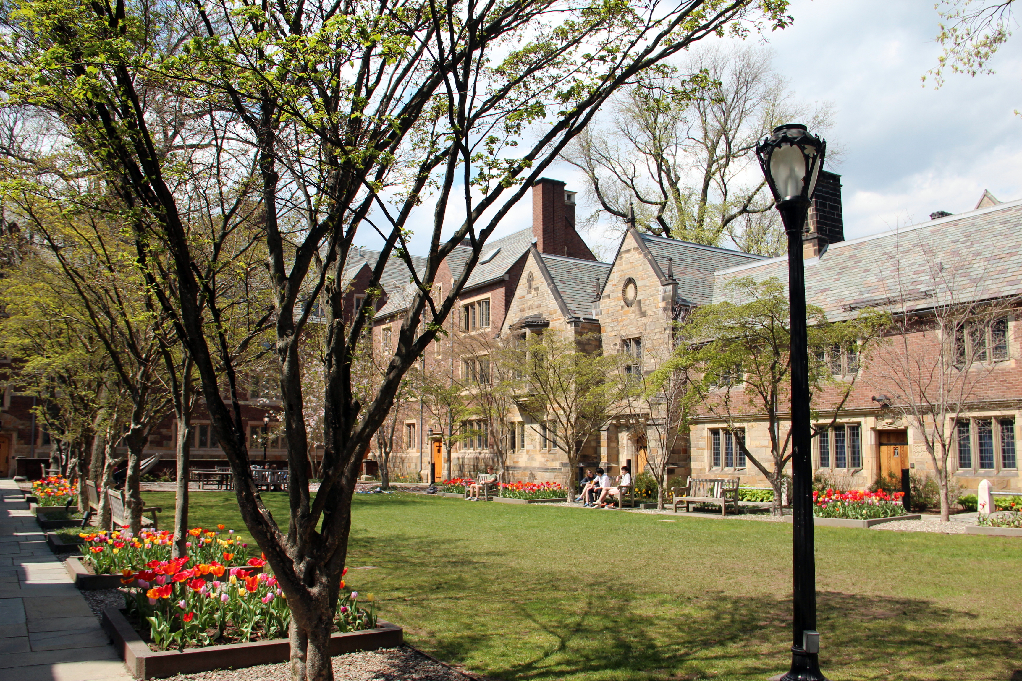 Courtyard of Jonathan Edwards College with tulips in bloom, facing west, Yale University, New Haven, CT